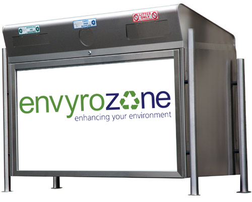 Toronto Recycling, Recycling Bins, Recycling Solutions, Envyrozone